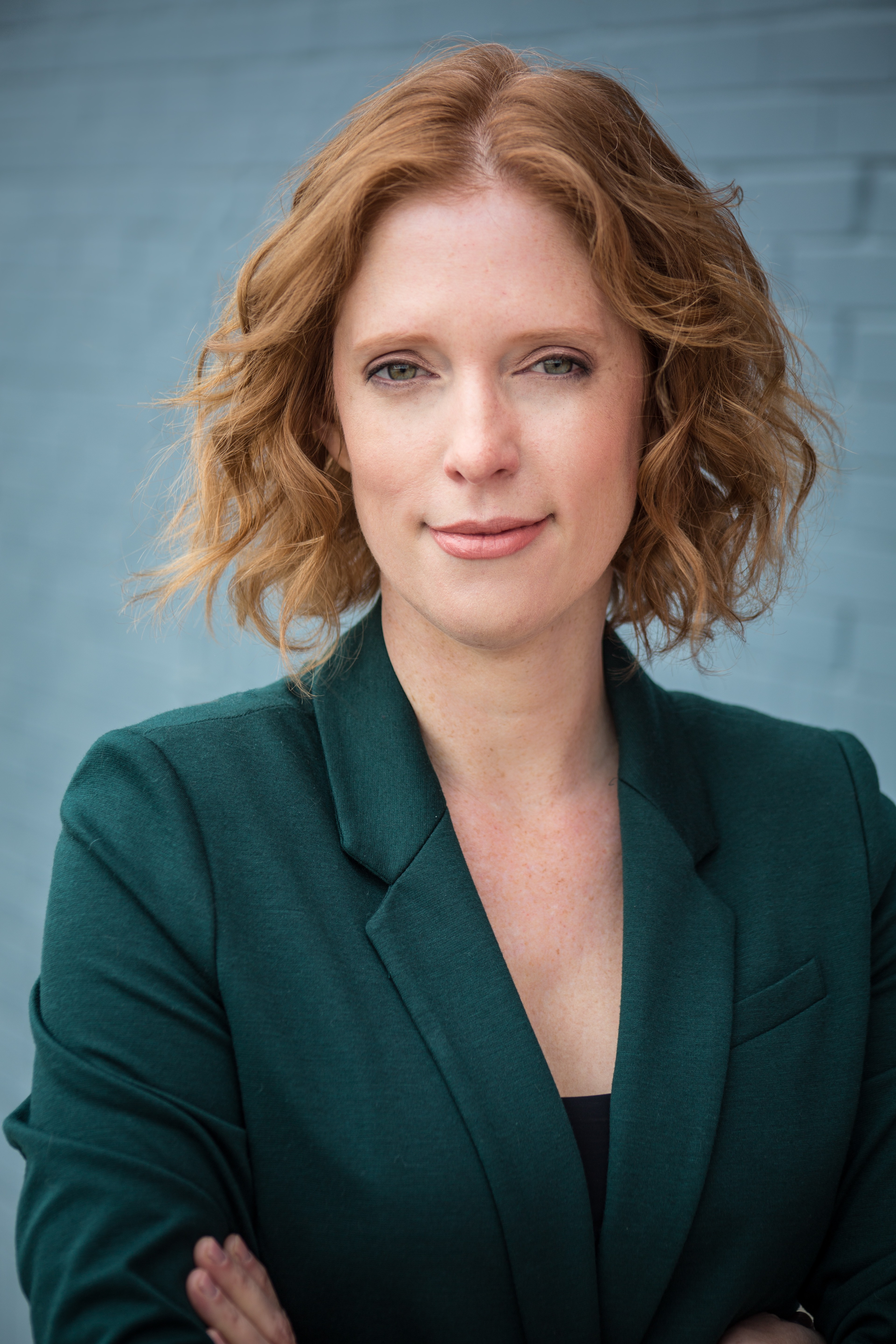 Dawn in Fall 2017